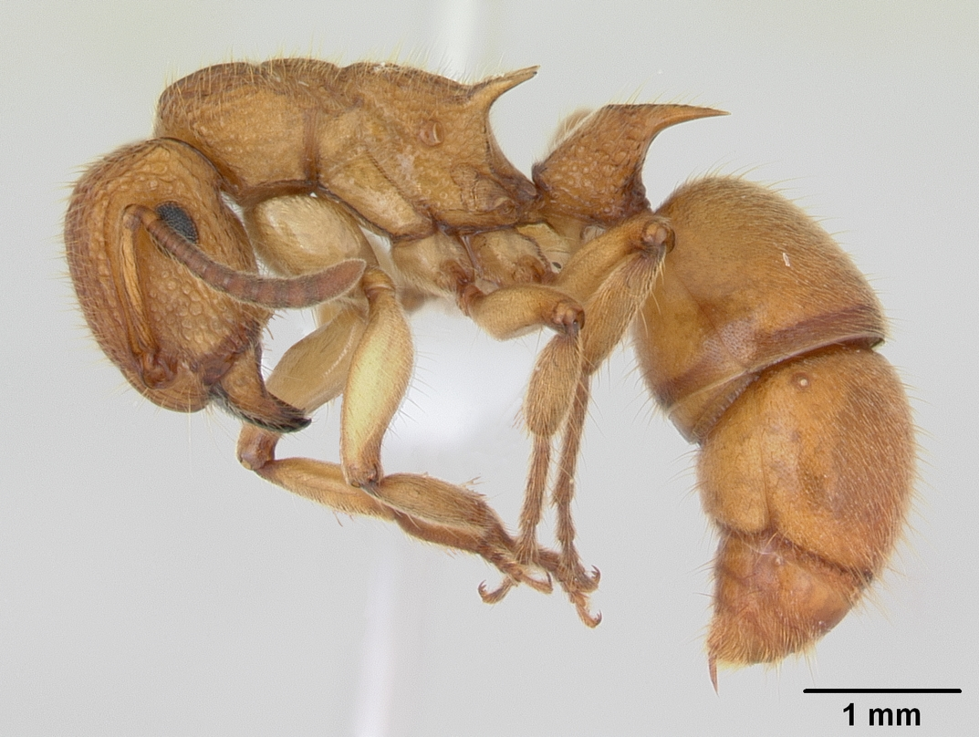 Profile view of ant Acanthoponera mucronata specimen casent0173540.